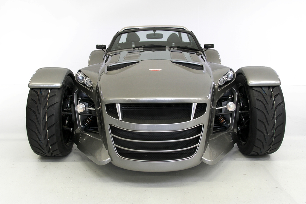 Donkervoort D8 GTO front